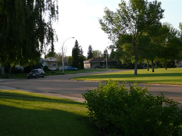 I took this picture myself on June 21, 2007